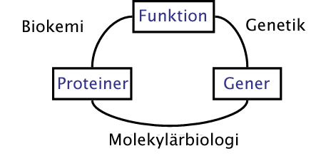 Swedish translation of Image:Three-fields.png.